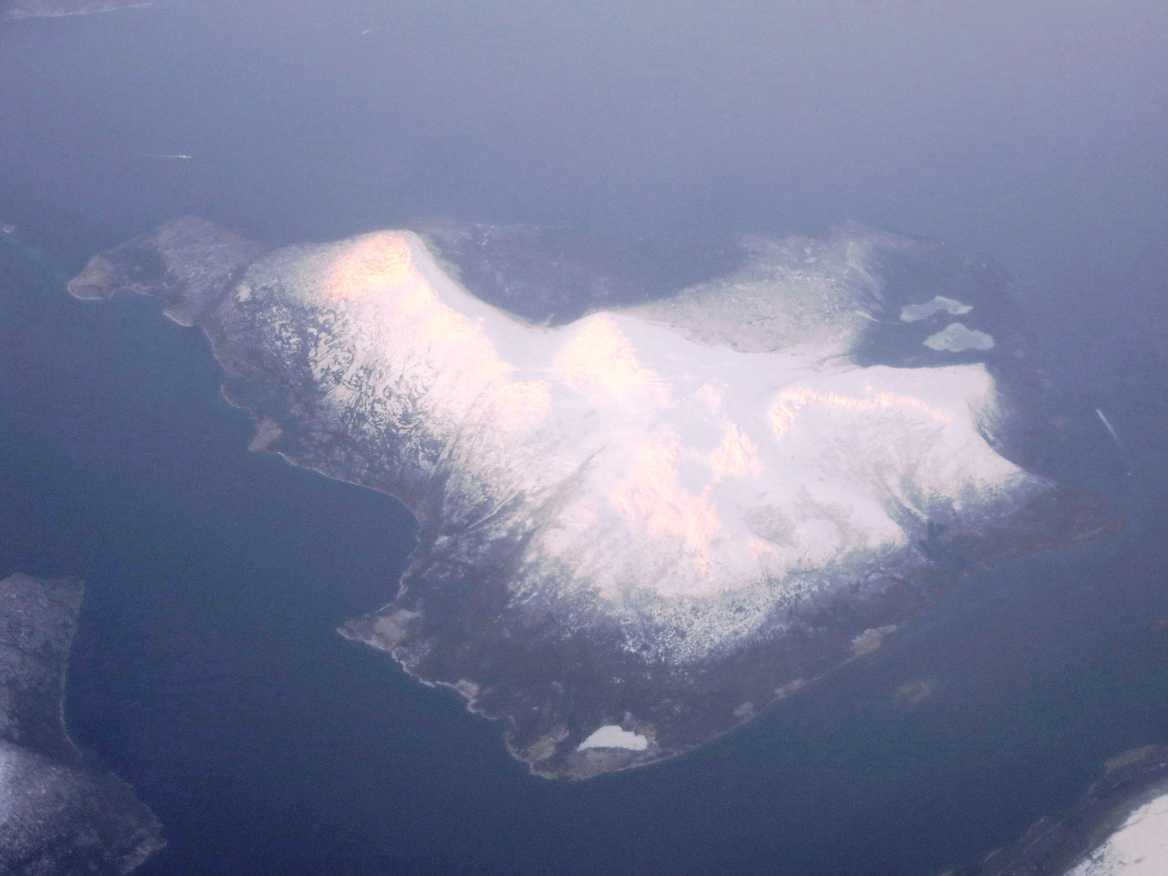 Aerial view from the east towards west, over the municipality of Tysfjord - Troms county in northern Norway